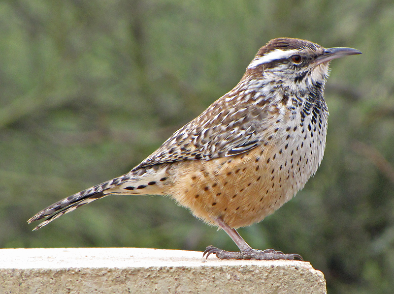 Campylorhynchus brunneicapillus Tucson, AZ